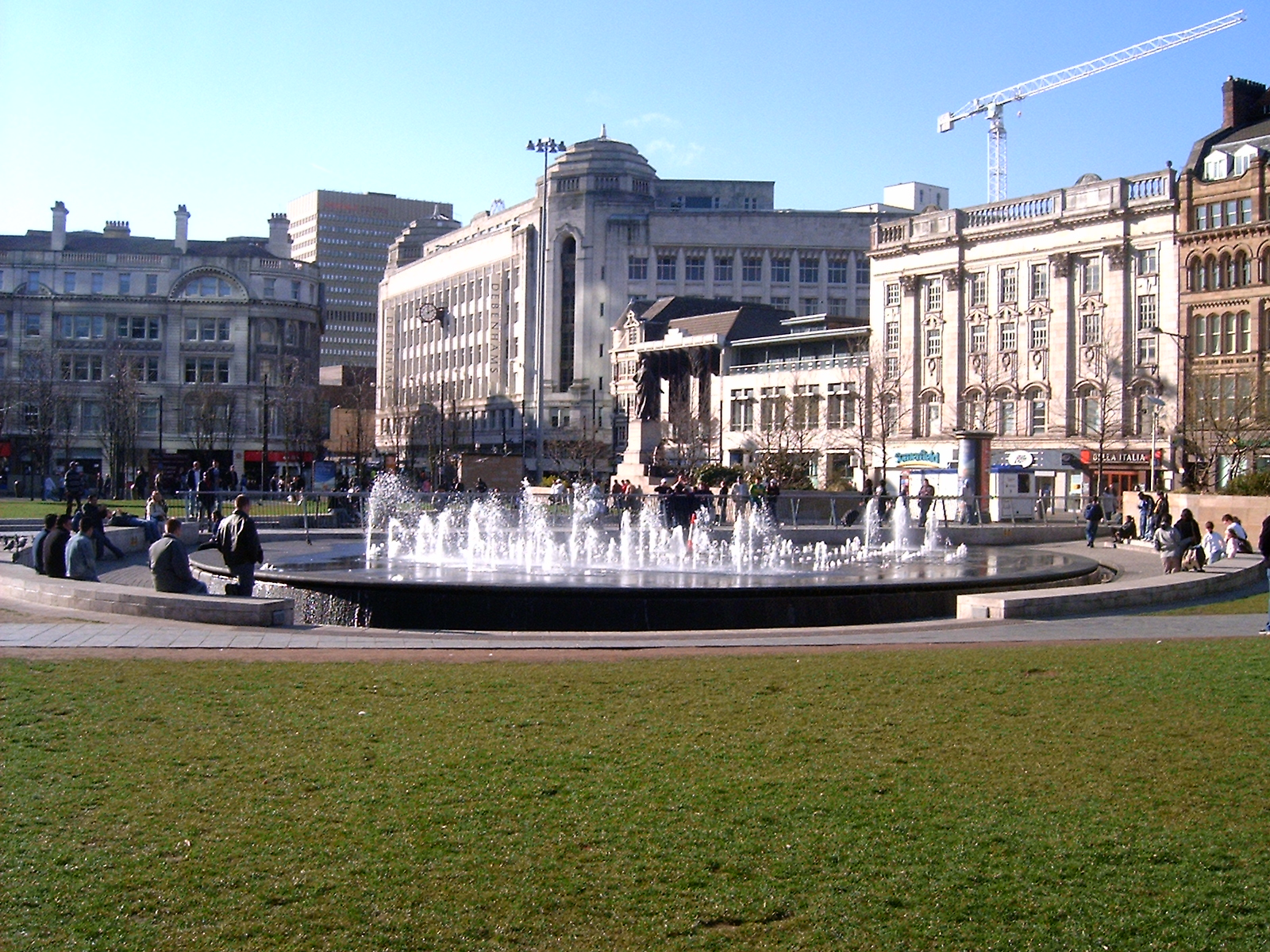 View of Debenhams (formerly Pauldens) Piccadilly Gardens, Manchester